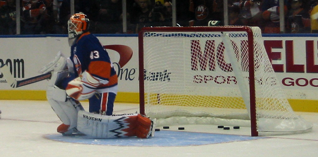 Martin Biron in goal for the New York Islanders.